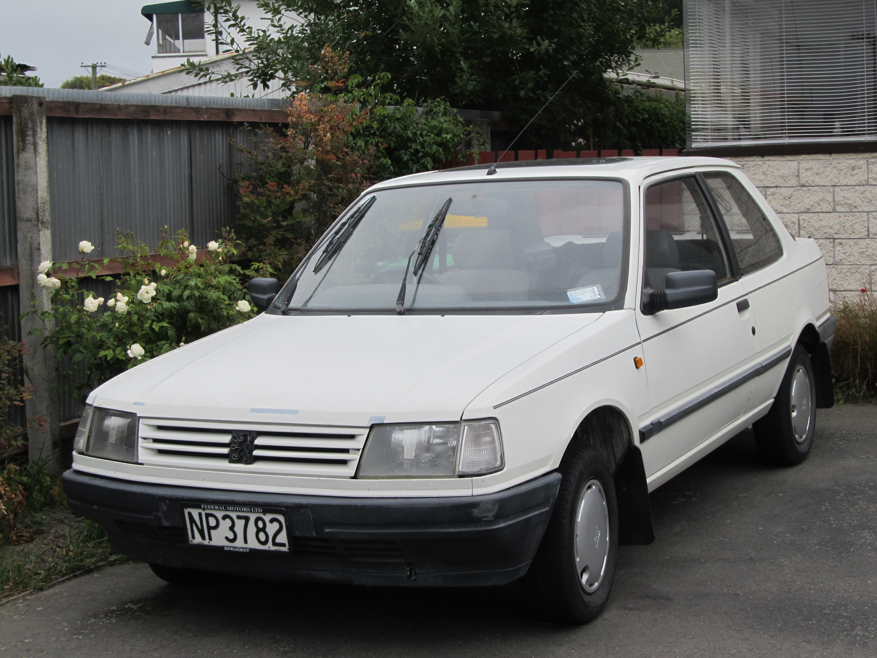 In very good condition indeed. I always wondered why Peugeot went from 305, to 309, and then 306? Anyway, this one was spotted at a small retirement complex, so is definitely owned by an older citizen. I'd love a 309 GTi... Funnily enough, the 309 was designed by Chrysler Europe, to be called Arizona, but the whole company went kaput and Peugeot bought it out.